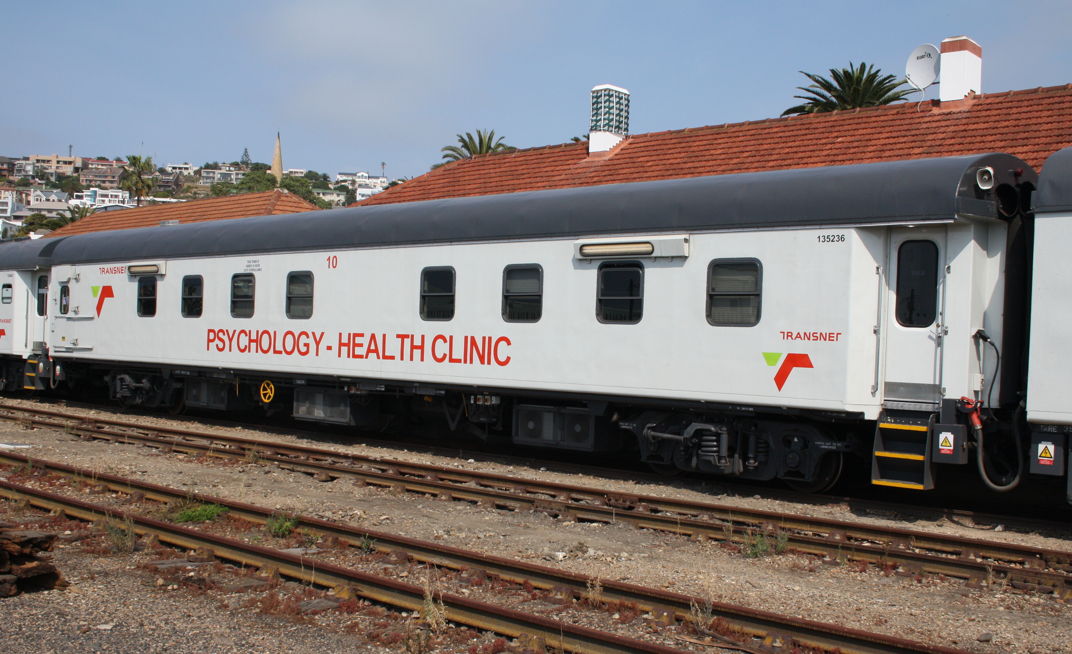 Transnet Phelophepa II: Psychology- Health Clinic coach nbr 135236